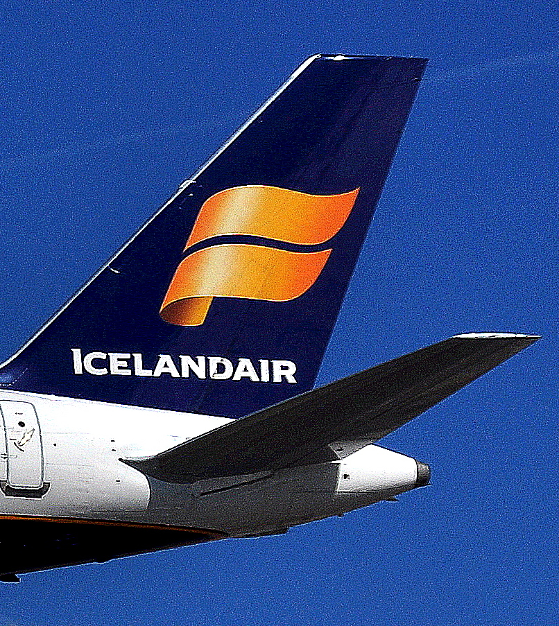 Model: Boeing 757-200 Airline: Icelandair Registration number: TF-FIU